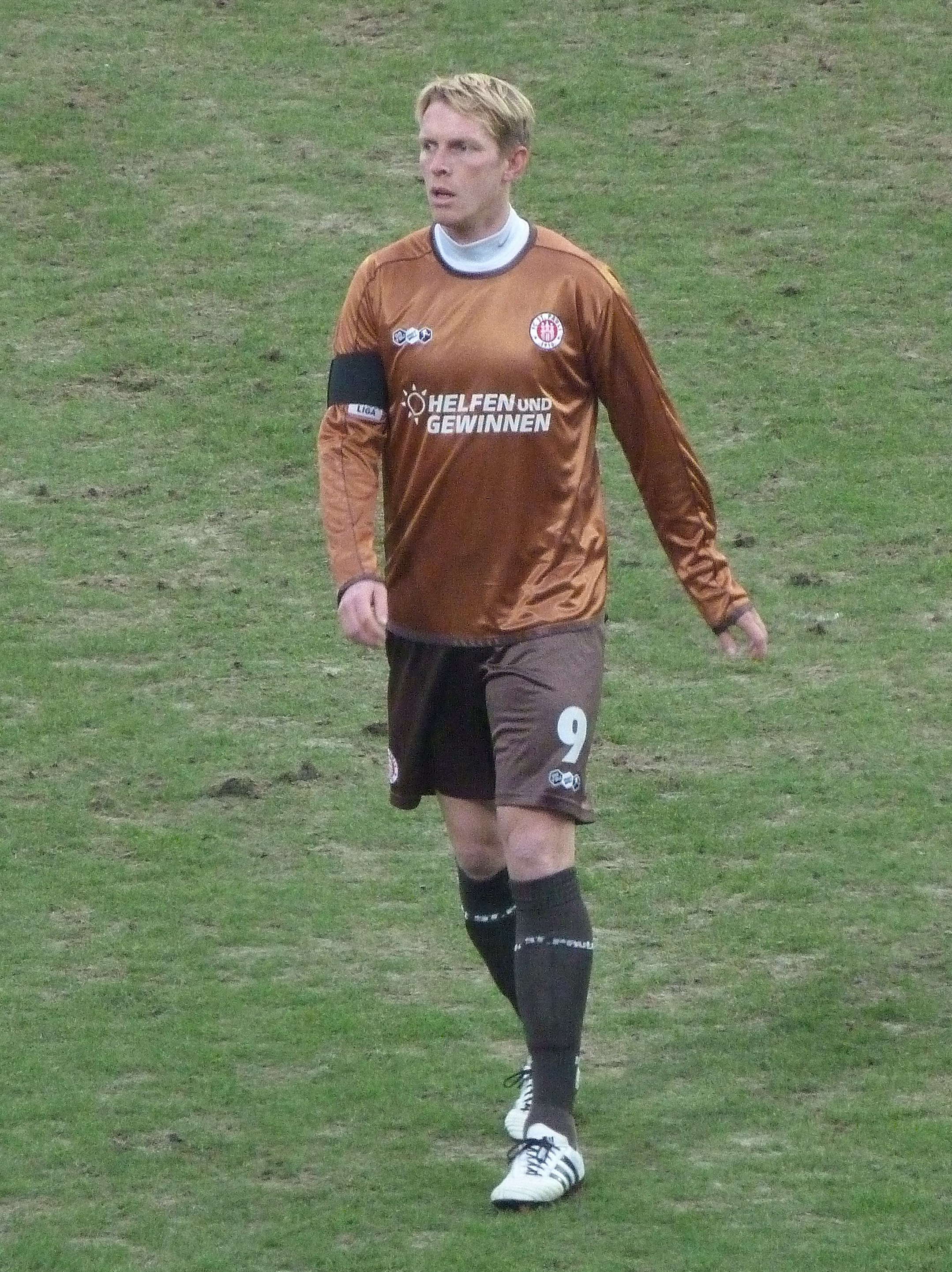 Marius Ebbers in the Season 2010/11 by FC St. Pauli